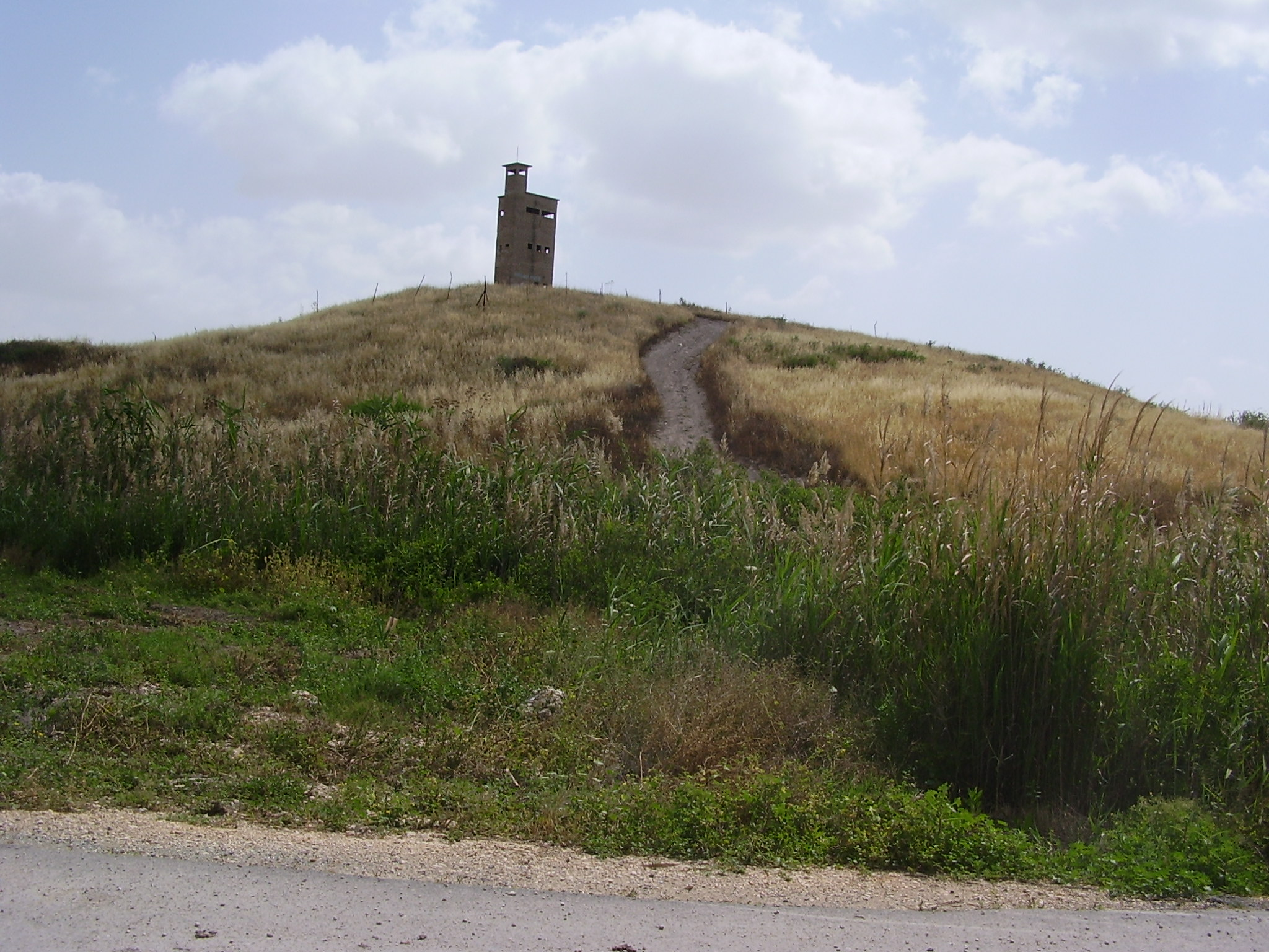 \"the three\" lookout in beit-shean valley